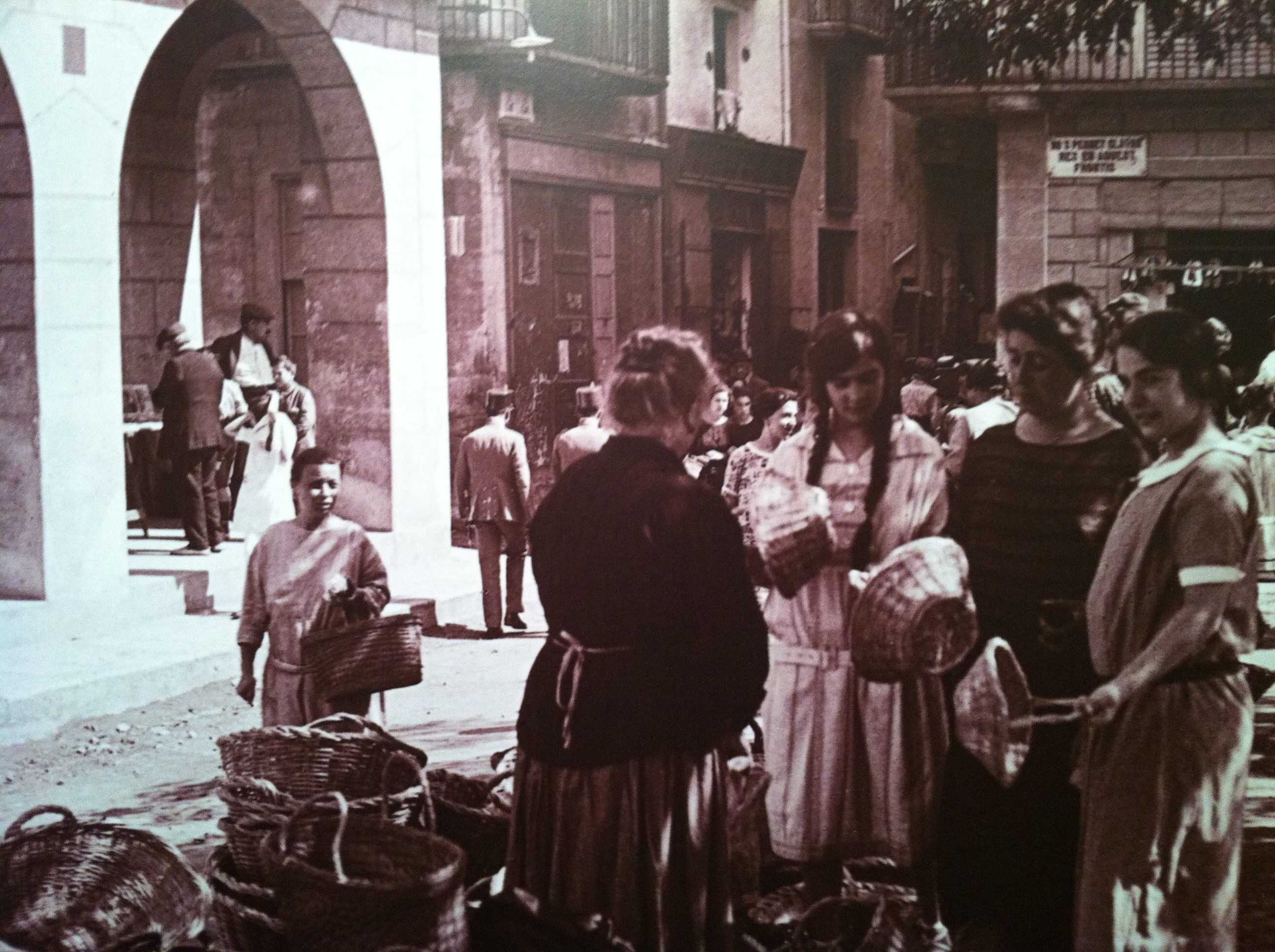 A scene of Catalan women at the market in Sant Feliu de Guíxols.